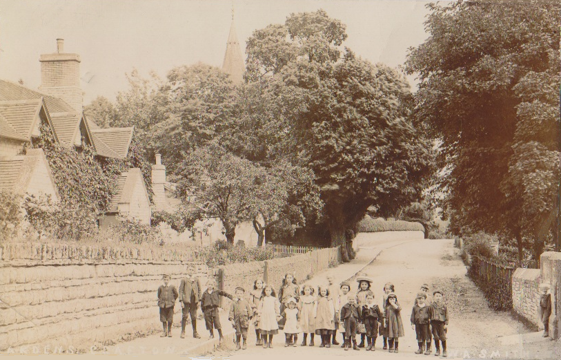 Postcard entitled (very faintly) "Ardens Grafton" and signed W. A. Smith, used in the post with green halfpenny stamp of King George V and postmarked Alcester, 1911. However the photograph is quite clearly Temple Grafton with St Andrews church spire in the background